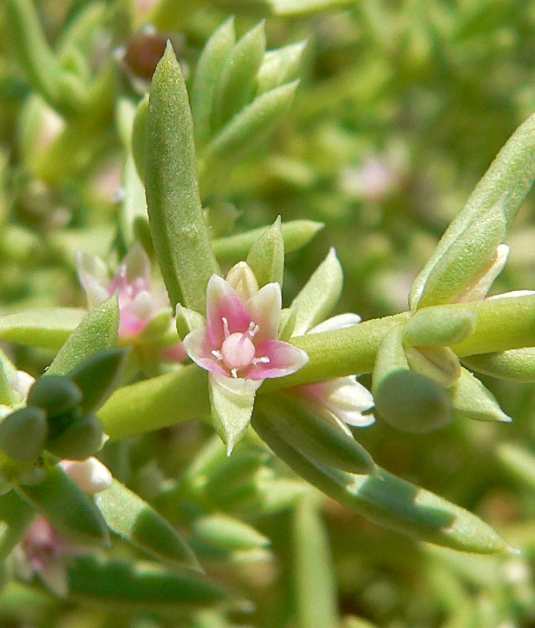 Nitrophila occidentalis in Carson Slough, Amargosa River, south of State Line Road 2 miles east of Death Valley Junction, southern California